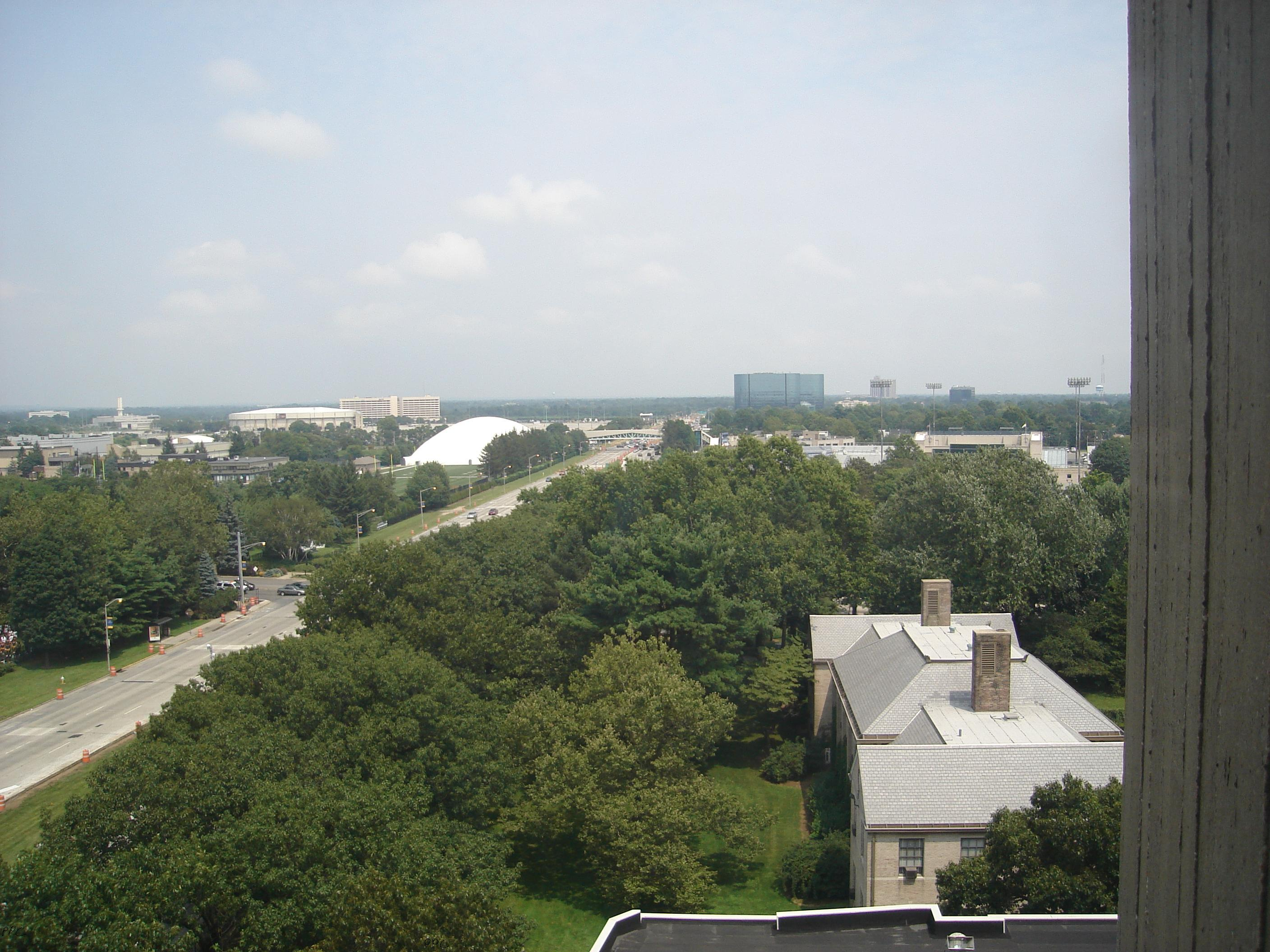 Photograph looking east over Uniondale including Nassau Coliseum, Hempstead Turnpike and Reckson Plaza.